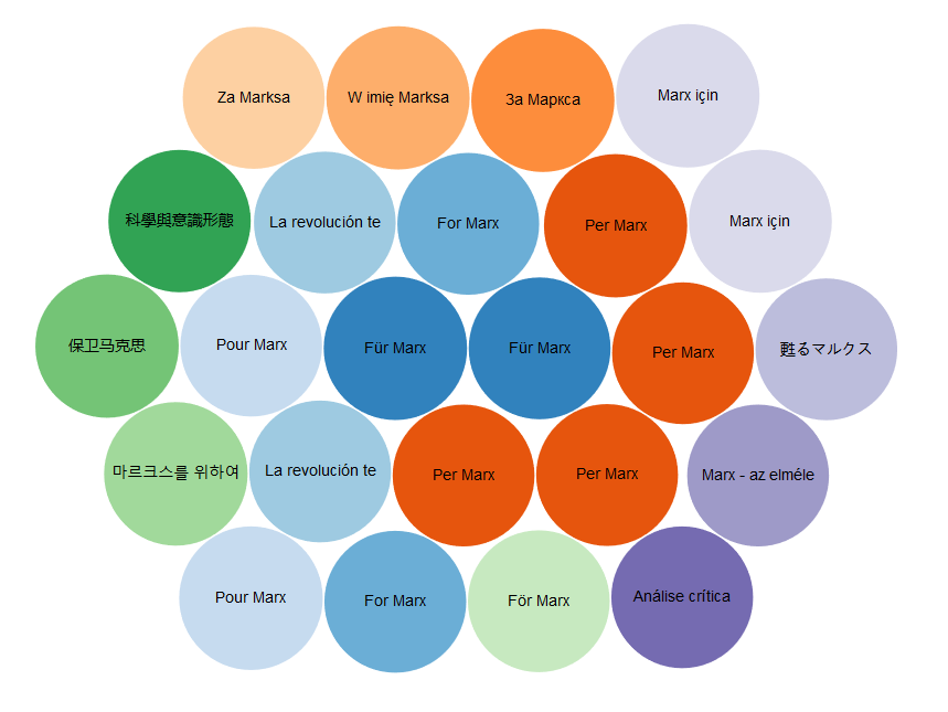 Query